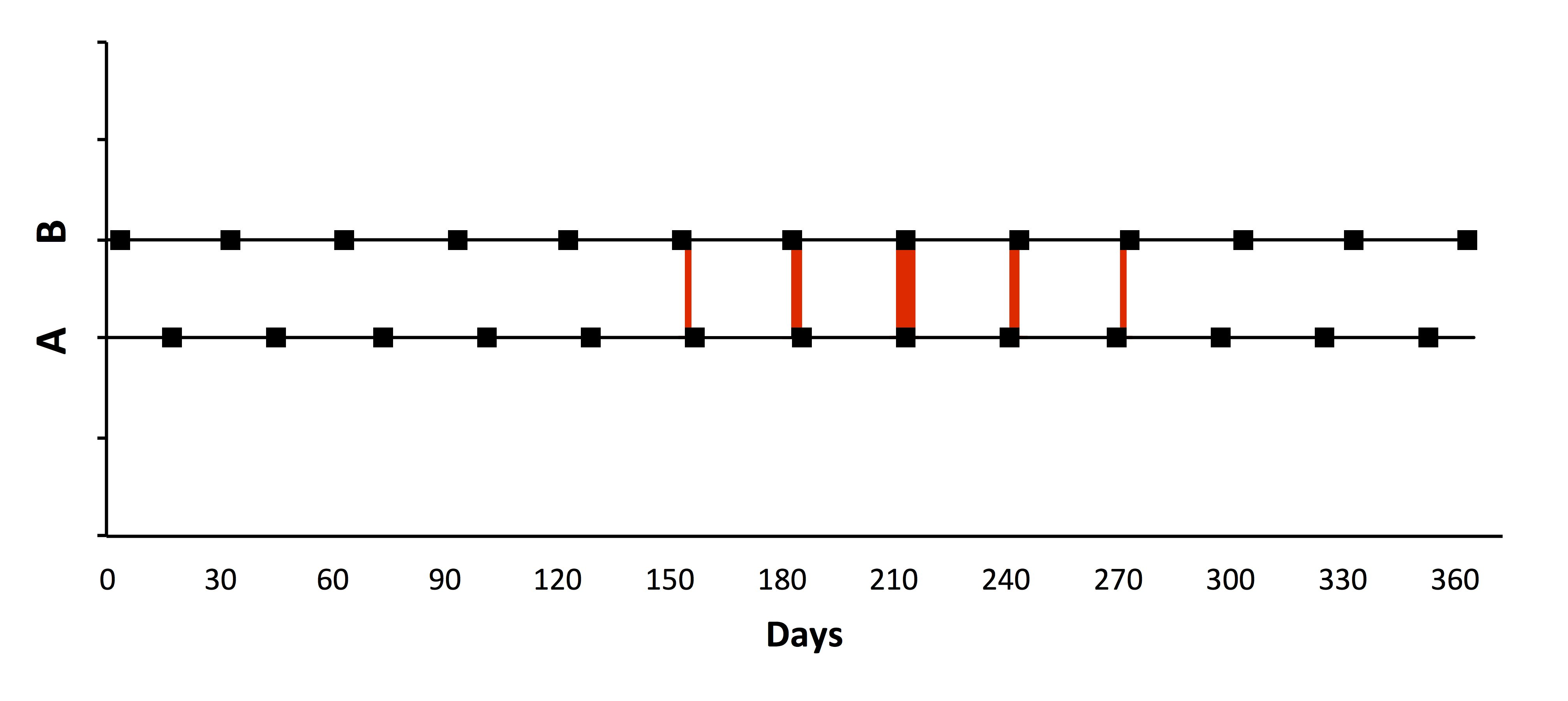 This is an illustration of menstrual cycle convergence and divergence as described in Yang, Zhengwei; Jeffrey C. Schank (2006). "Women do not synchronize their menstrual cycles". Human Nature 17 (4): 433-447. Retrieved on 17 June 2013.. It is an improved version of File:Yang and Schank 2006 converging diverging cycles.jpg.